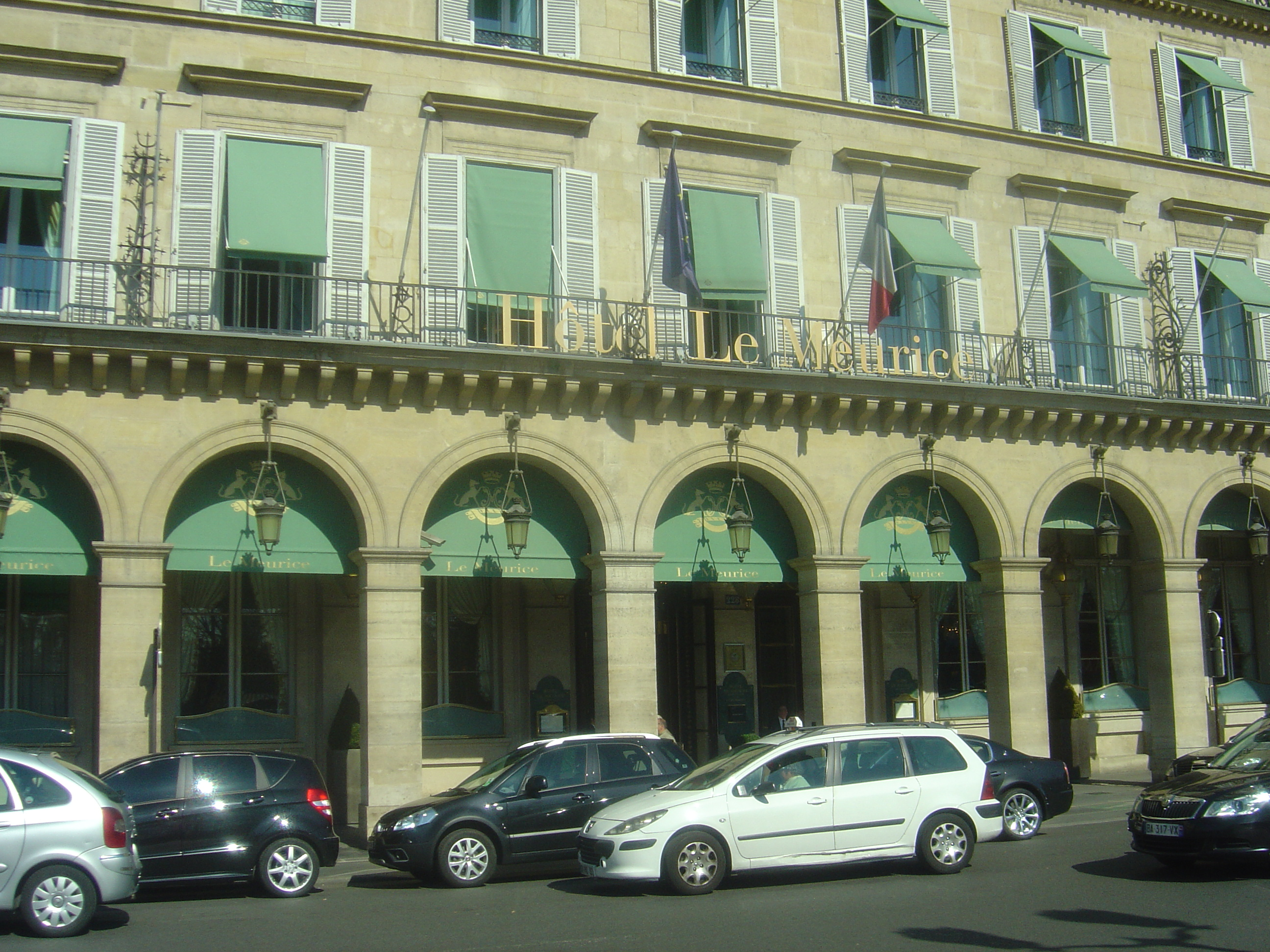 Hôtel Meurice in Paris